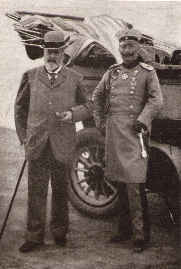 King Edward VII (left) and Kaiser Willhelm II (right)